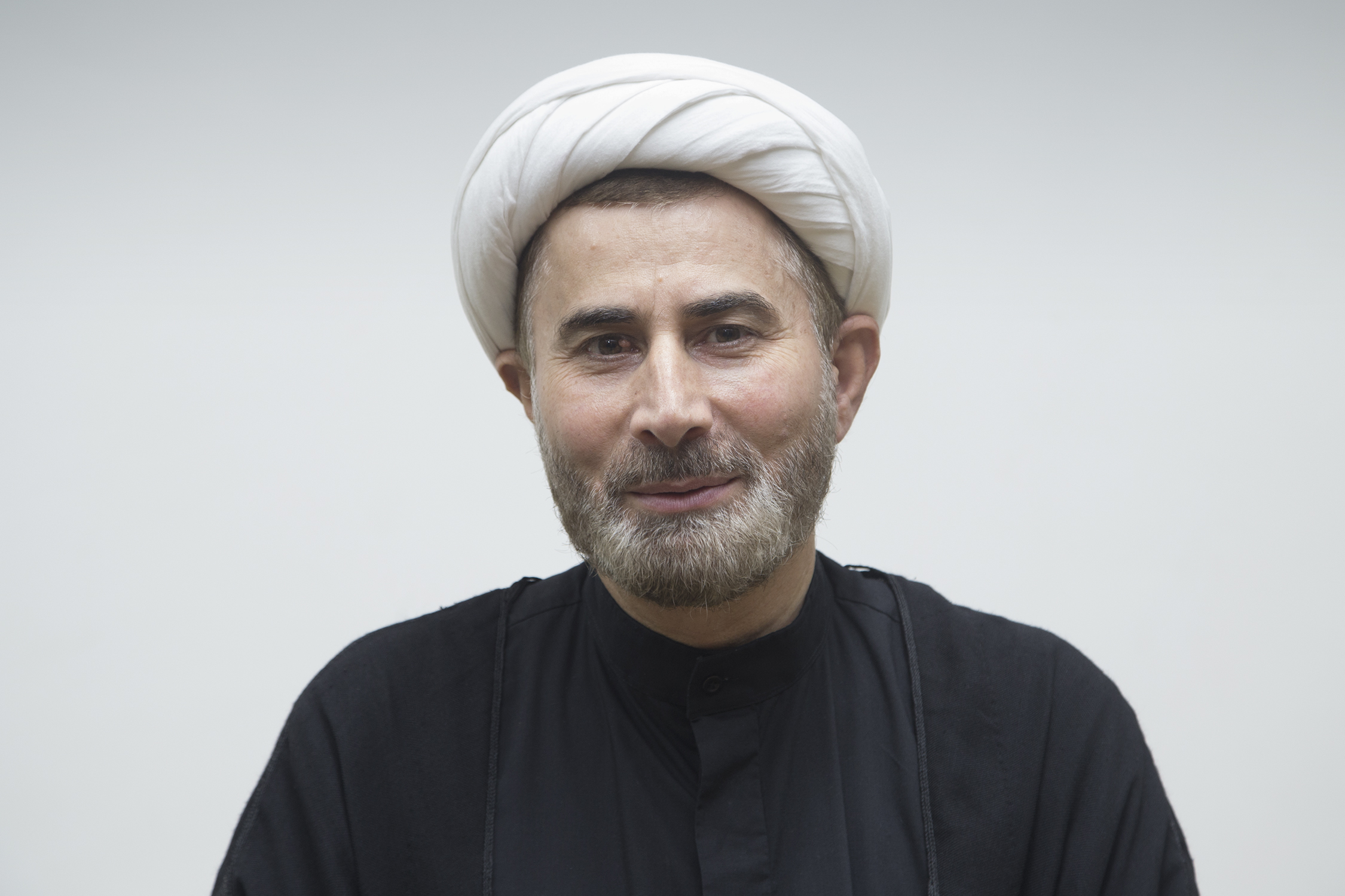 Muslim cleric, Dr Sheikh Mansour Leghaei